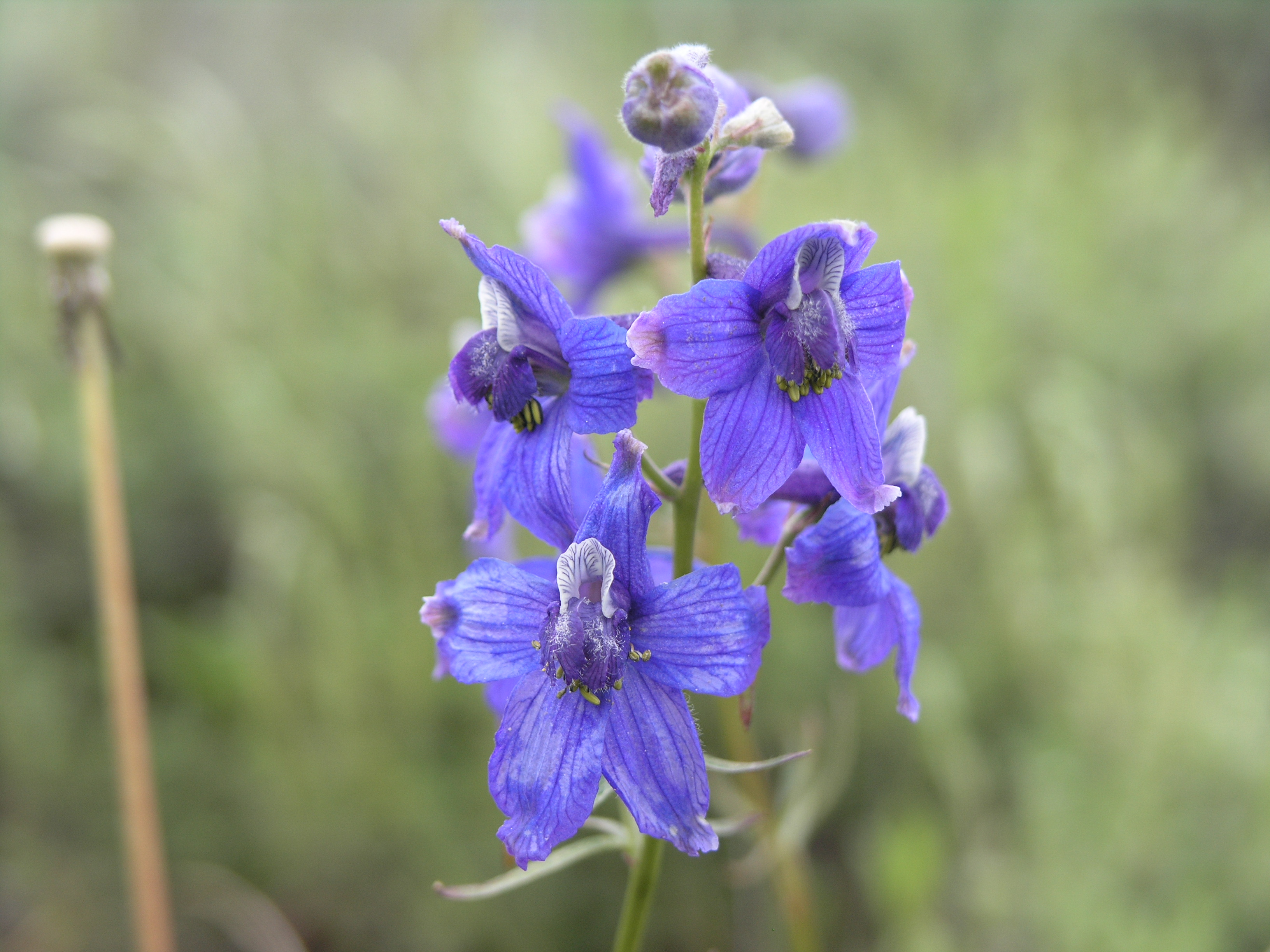 Low Larkspur flowers in Grand Teton National Park